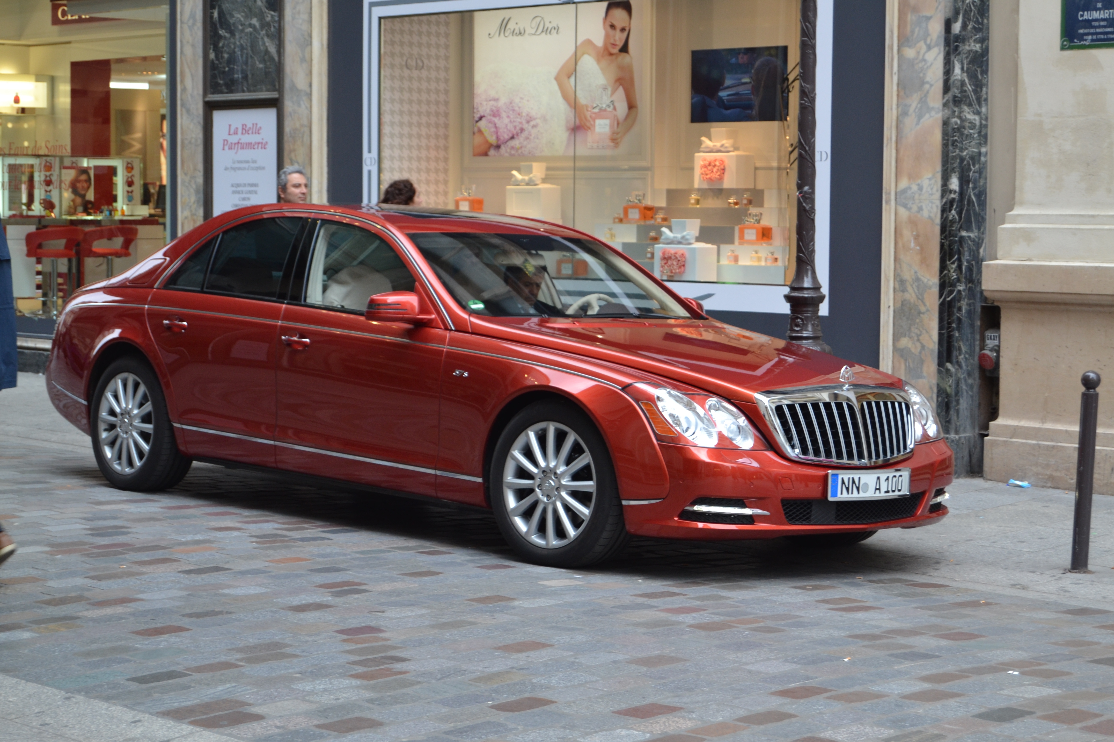 Maybach 57